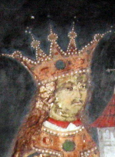 Ştefan cel Mare, ruler of Moldova - portrait of 1503